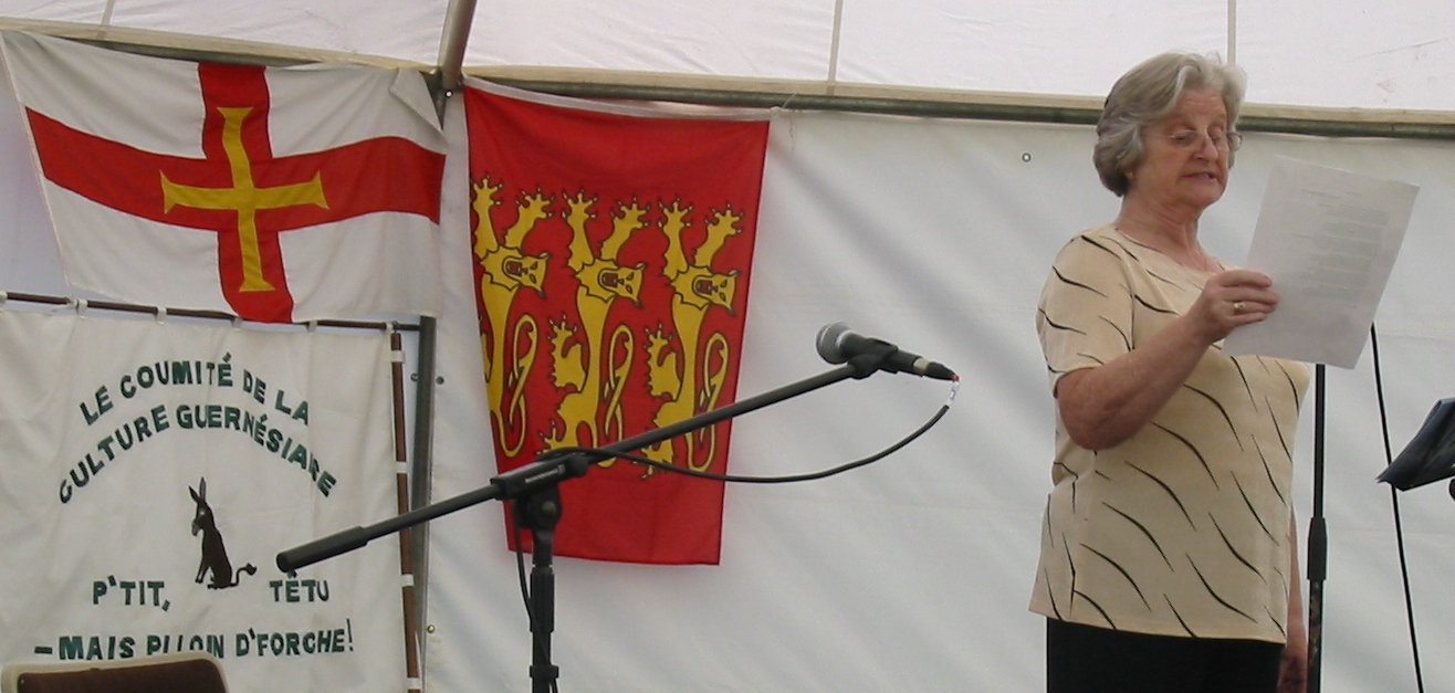 Fête des Rouaisouns, Jersey 2008